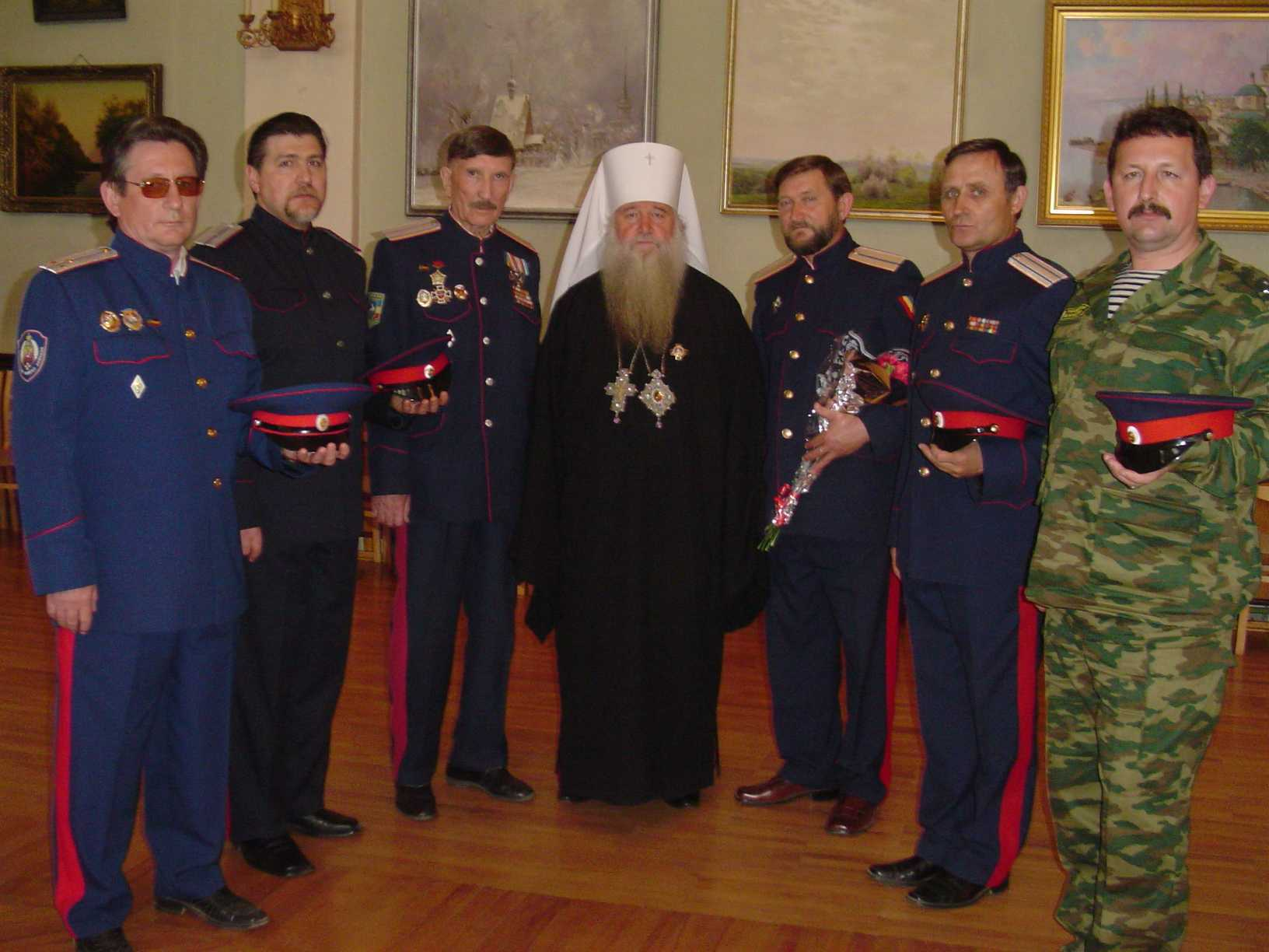 The Cossacks of the Volgograd oblast with Metropolitan Herman and Kamyshin